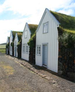 Grenjadarstadur